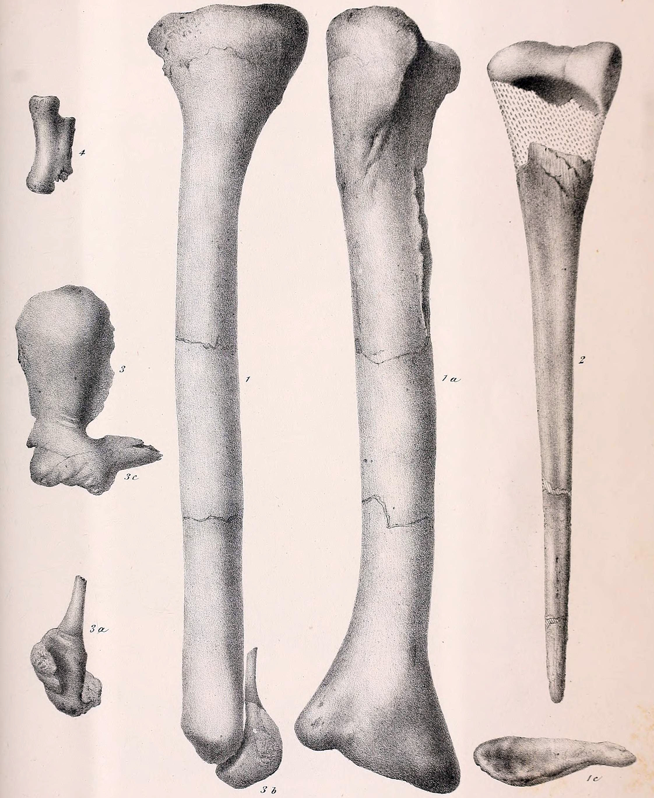 Fossil remains of Dryptosaurus/Laelaps.